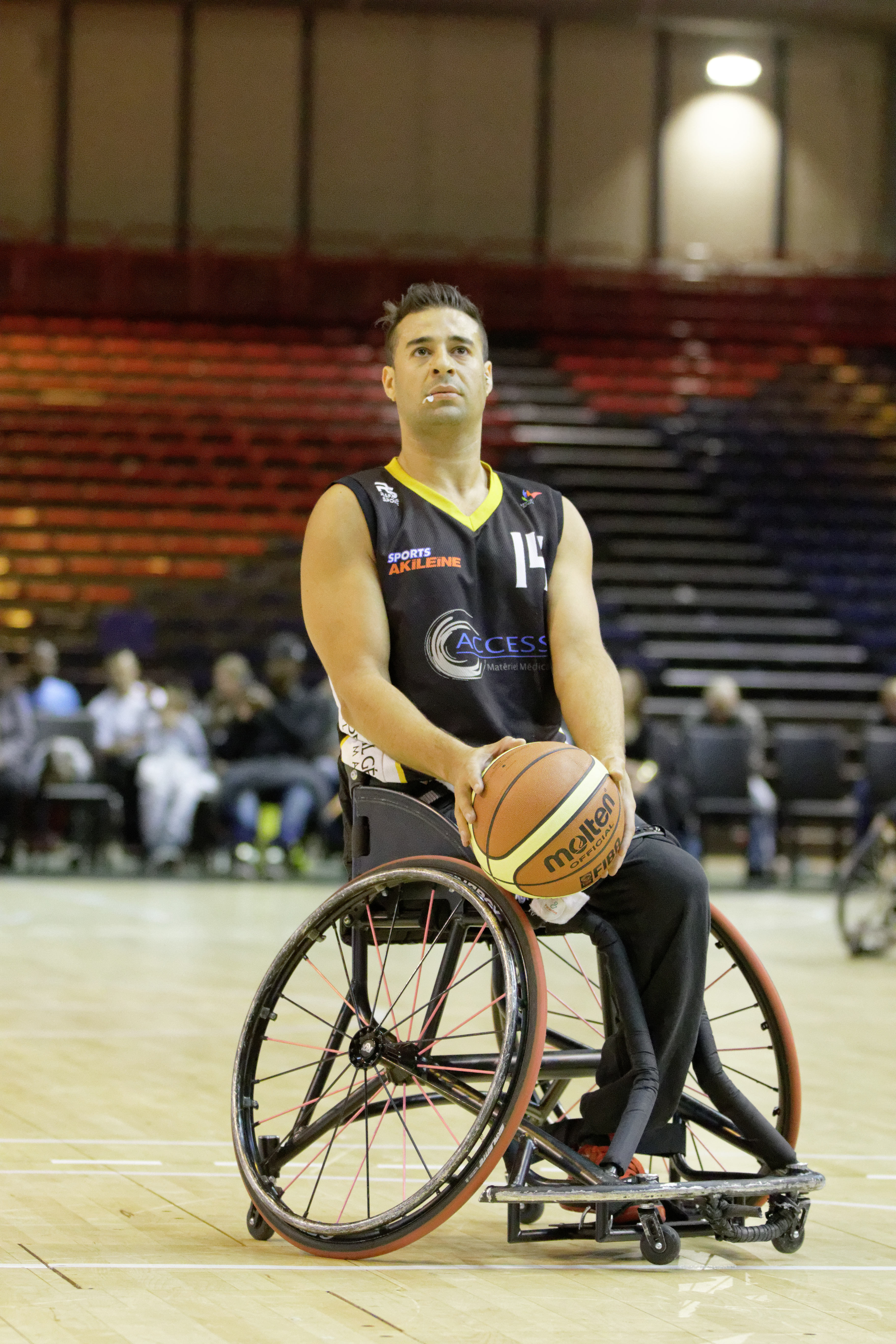 Final of the French Wheelchair Basketball Cup, CS Meaux vs Le Cannet, 1st May 2015.